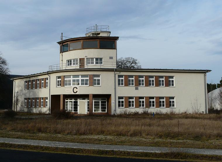 Cottbus Airfield (Tower)